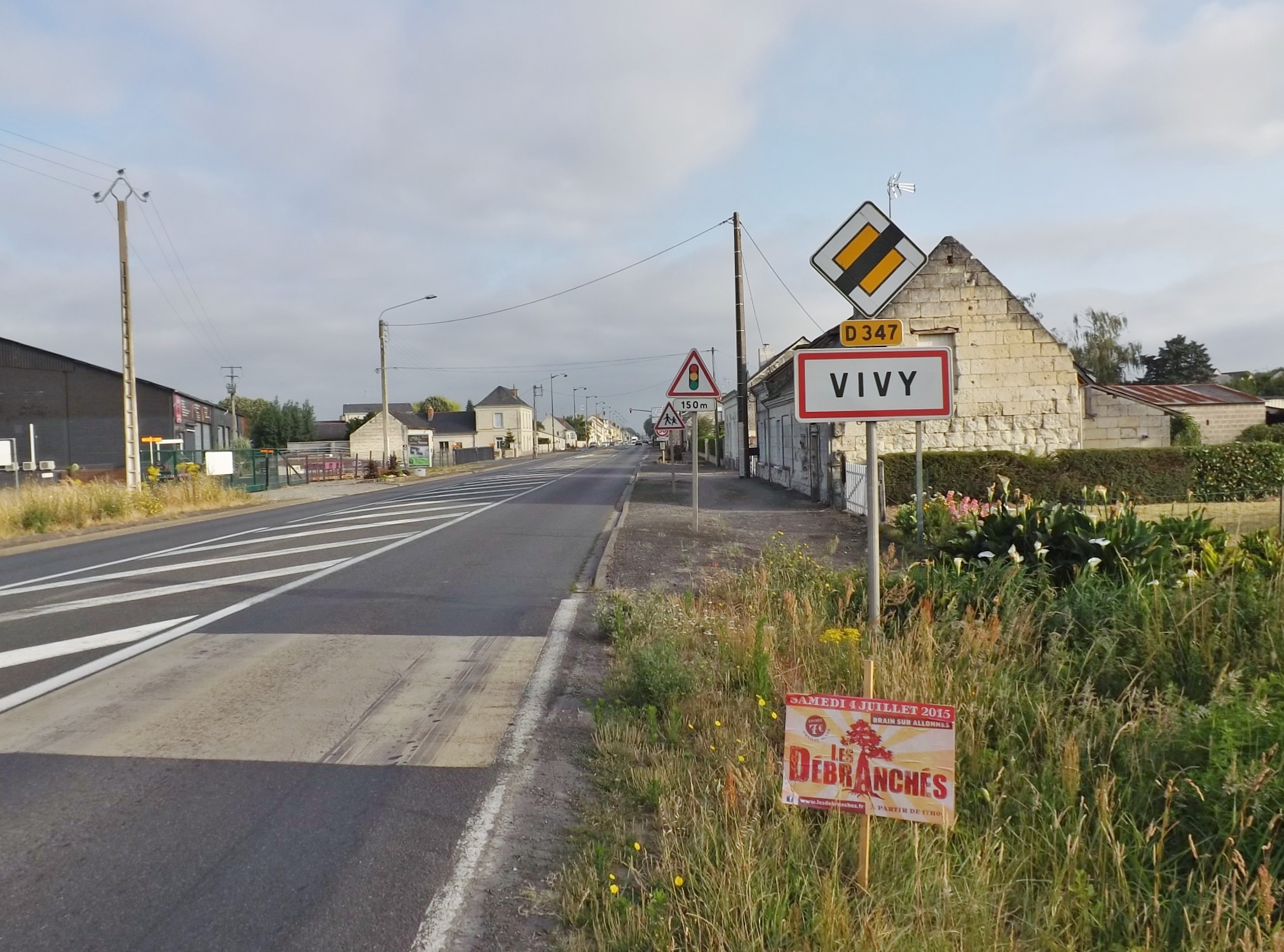 Entrance sign to the village of Vivy in Maine-et-Loire, France.